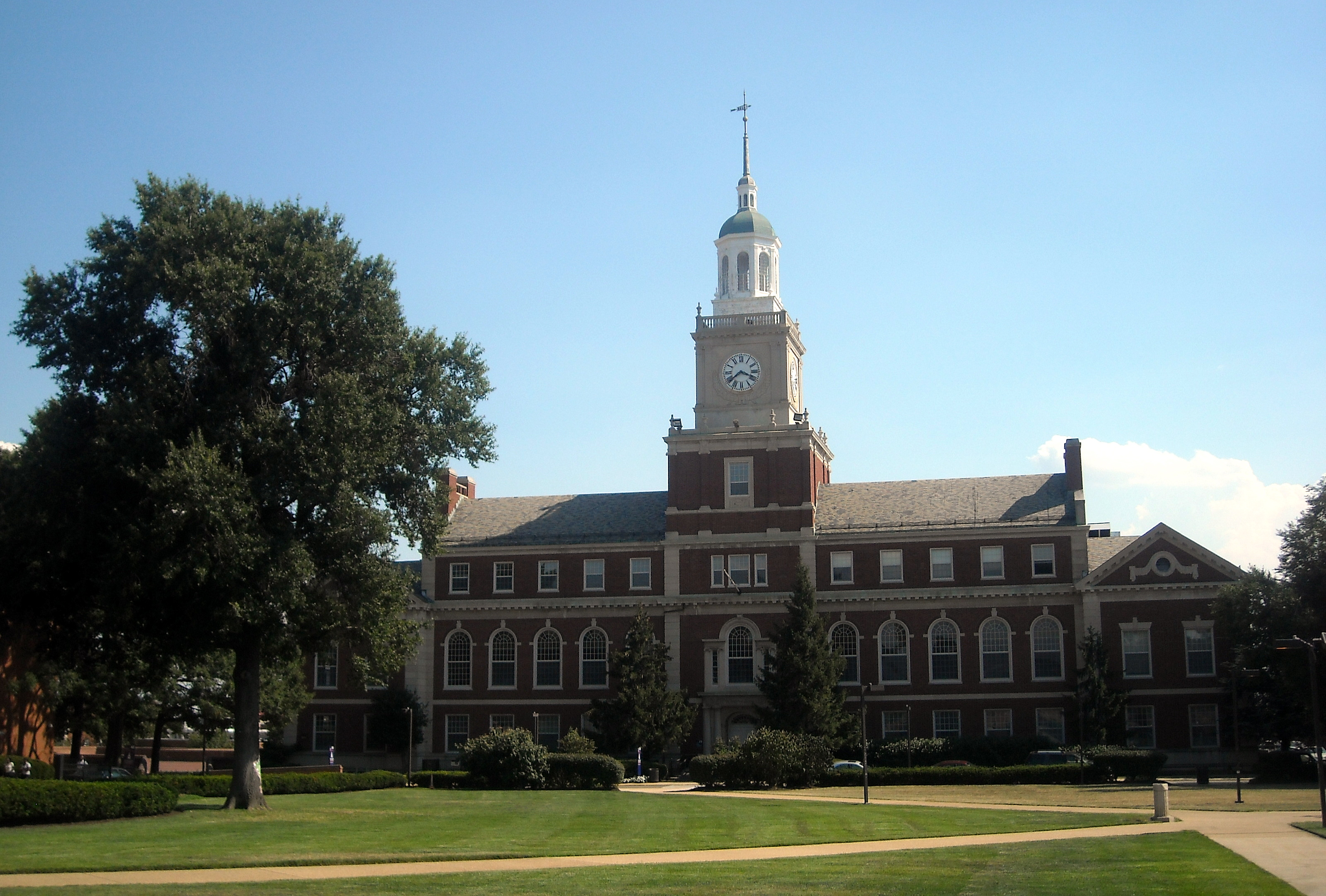 'Founders Library — on the campus of Howard University in Washington, D.C. Designed by African American architect Albert I. Cassell. The building is a National Historic Landmark.